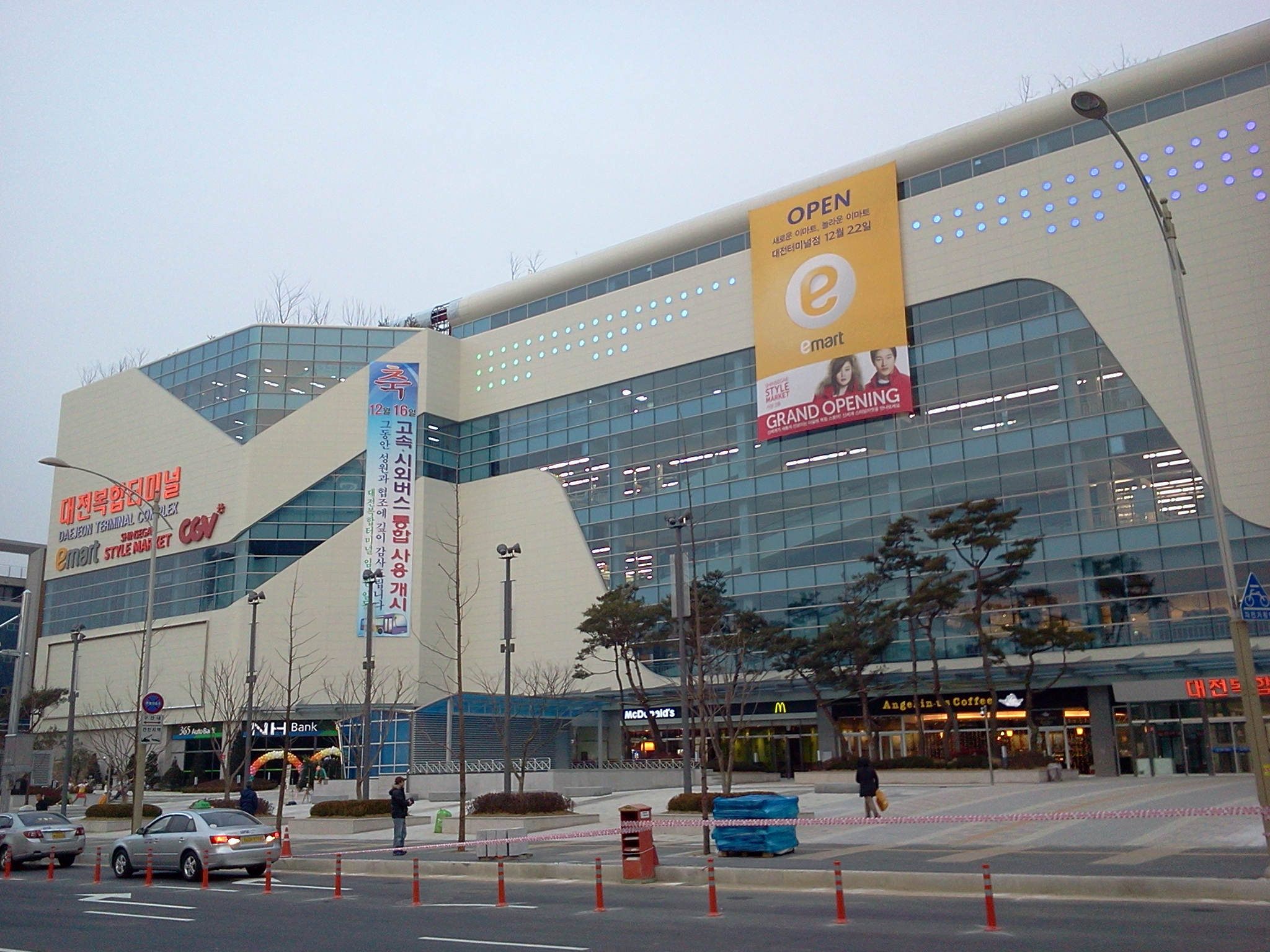 Daejeon Terminal Complex in Dong-gu, Daejeon, South Korea